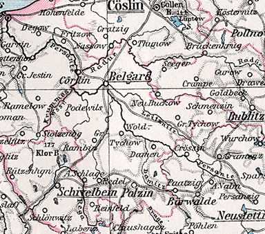 Detail from a map of Pomerania.